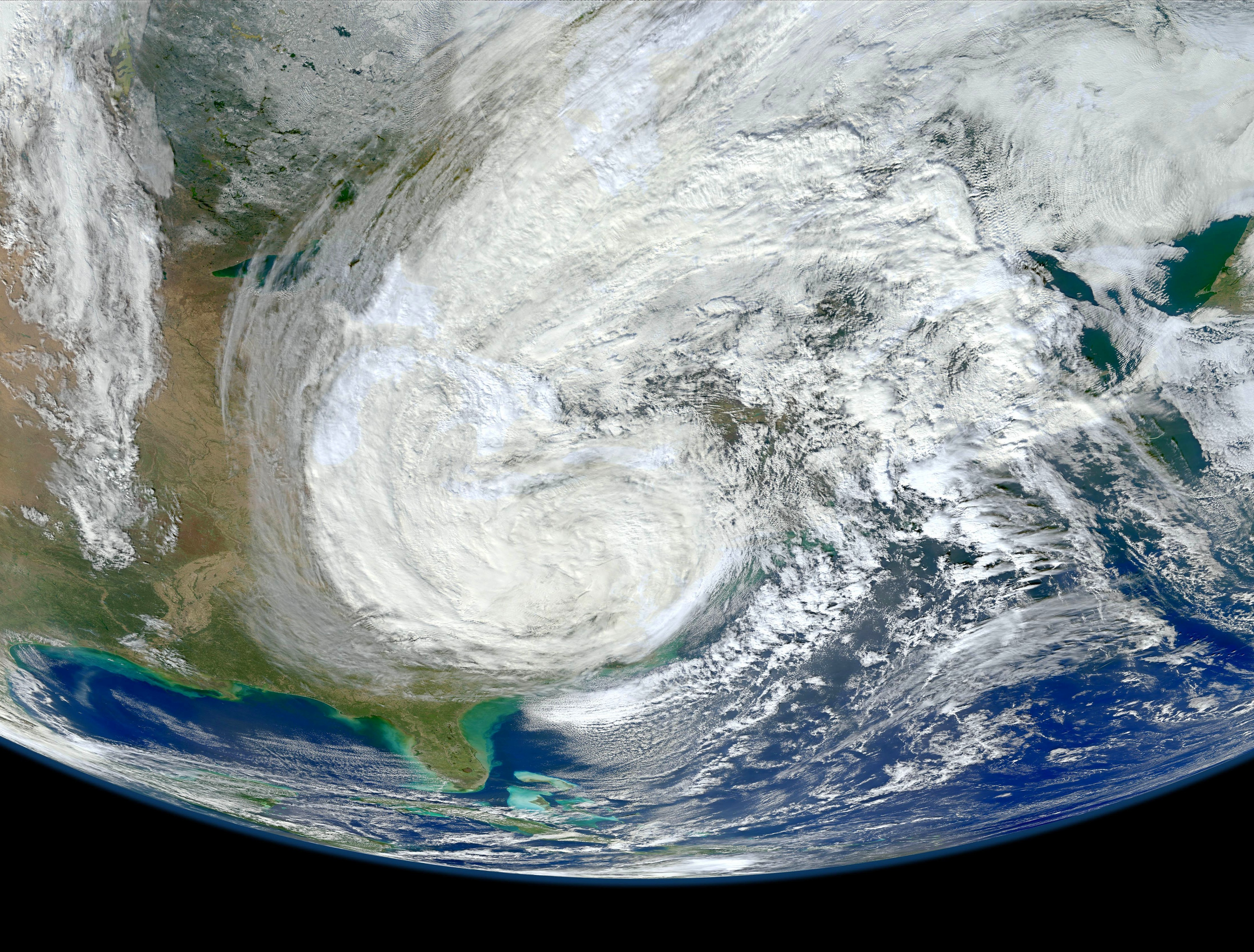 The Visible Infrared Imaging Radiometer Suite (VIIRS) on the Suomi NPP satellite captured this image, with a true color, artificial color of Hurricane Sandy, over the northeastern states, a day after landfall. In this image, north is the top, and south is the bottom of the image.